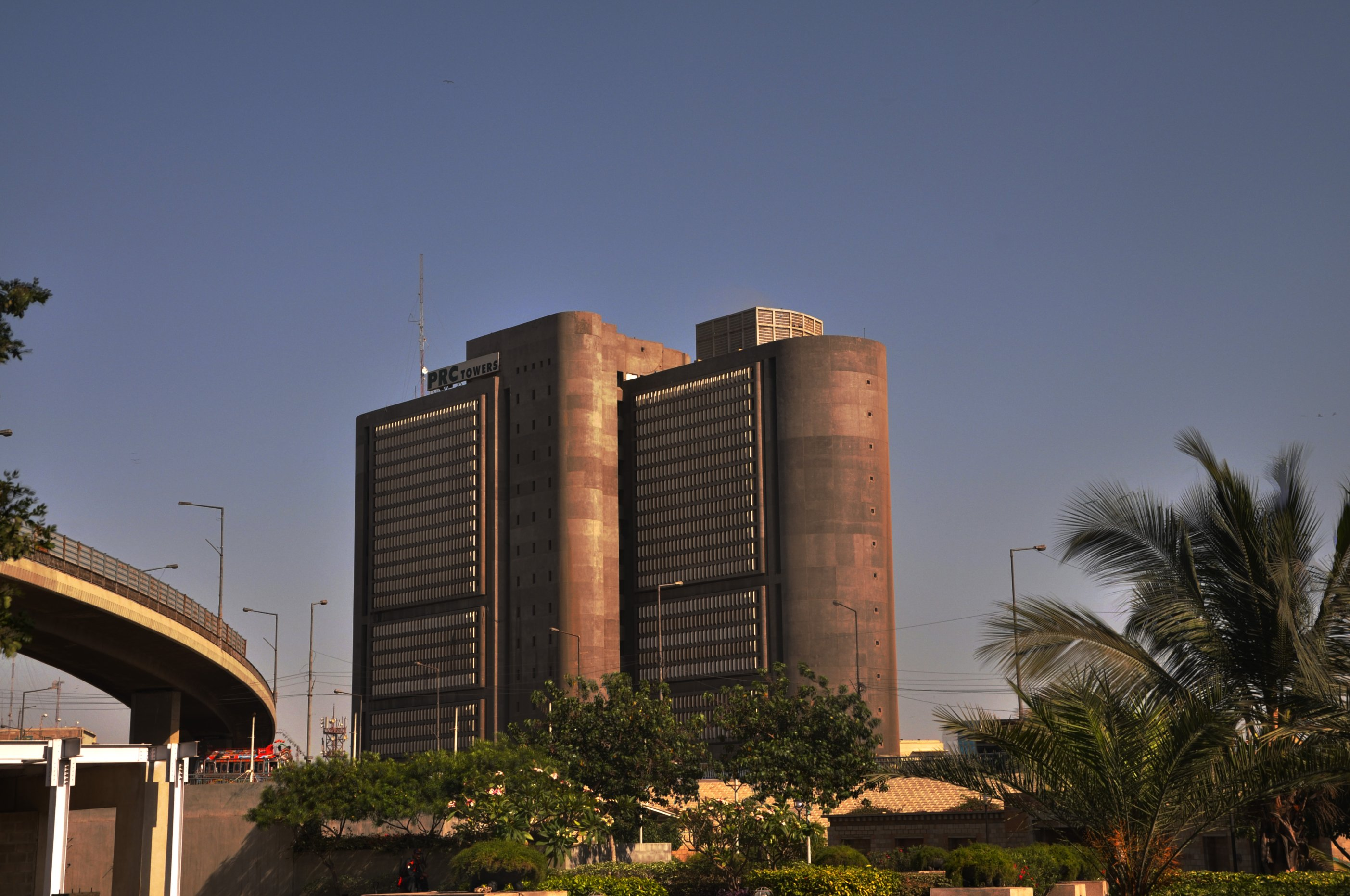 PRC Towers, Karachi